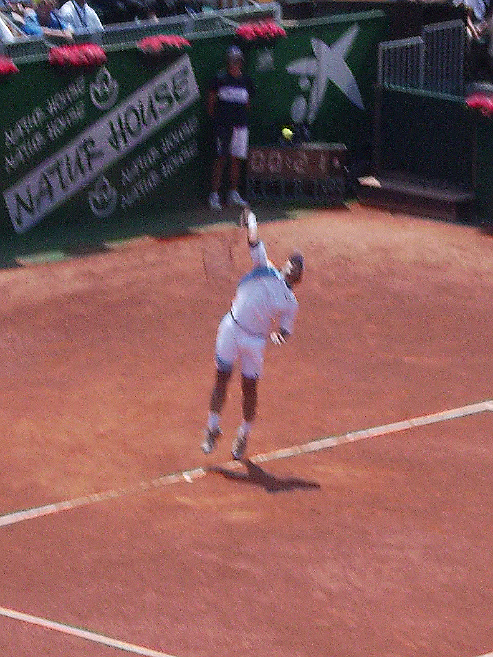 Agustín Calleri, in semifinals of the 2007 Compte de Godo, Barcelona